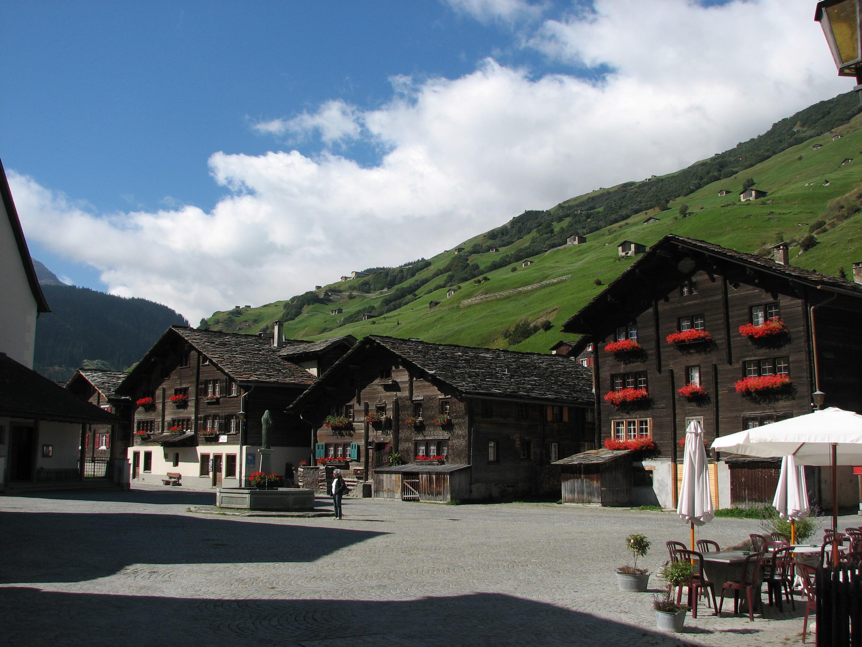 Vals, Graubünden